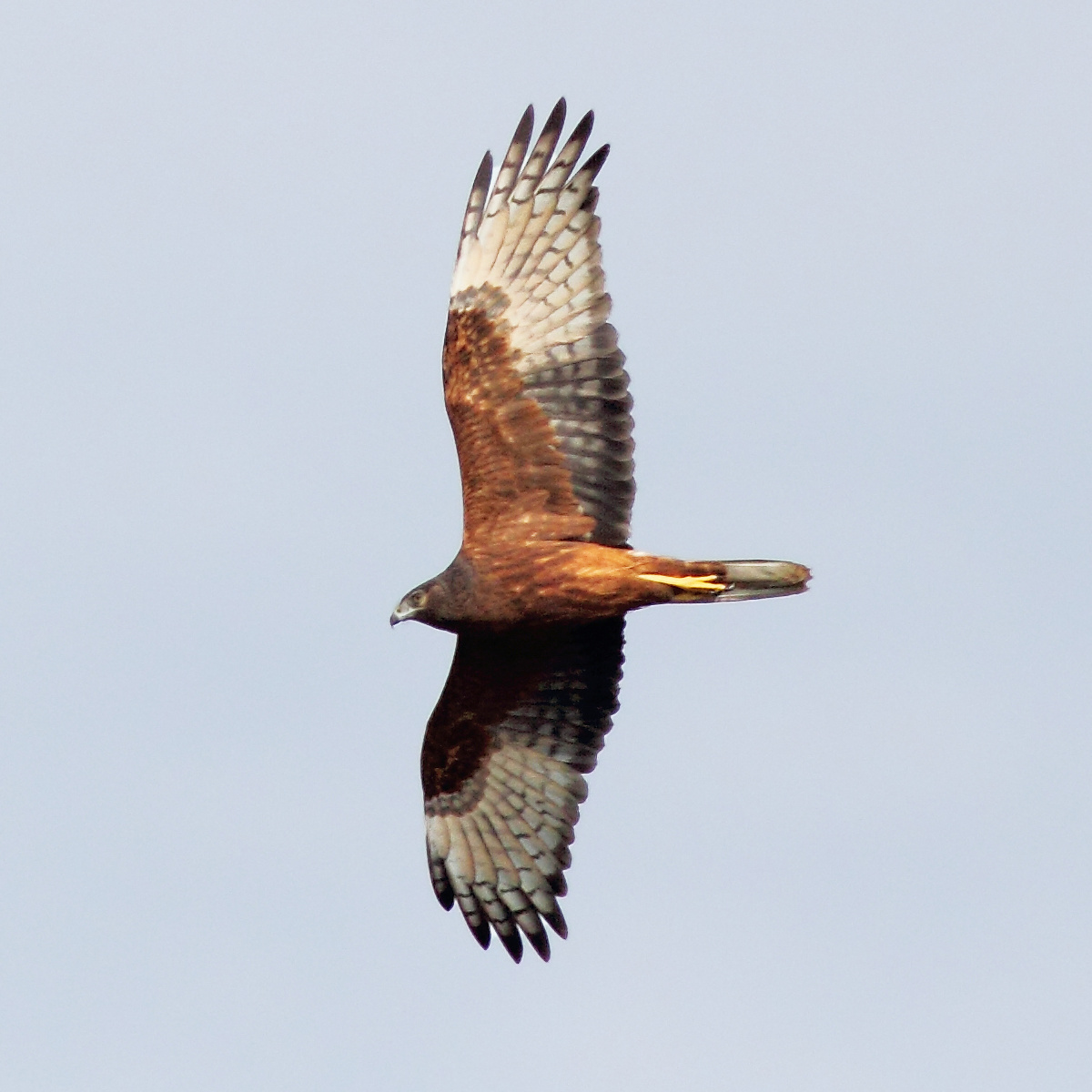 An immature Swamp Harrier flying at Coolart Wetlands, Mornington Peninsula, Australia.